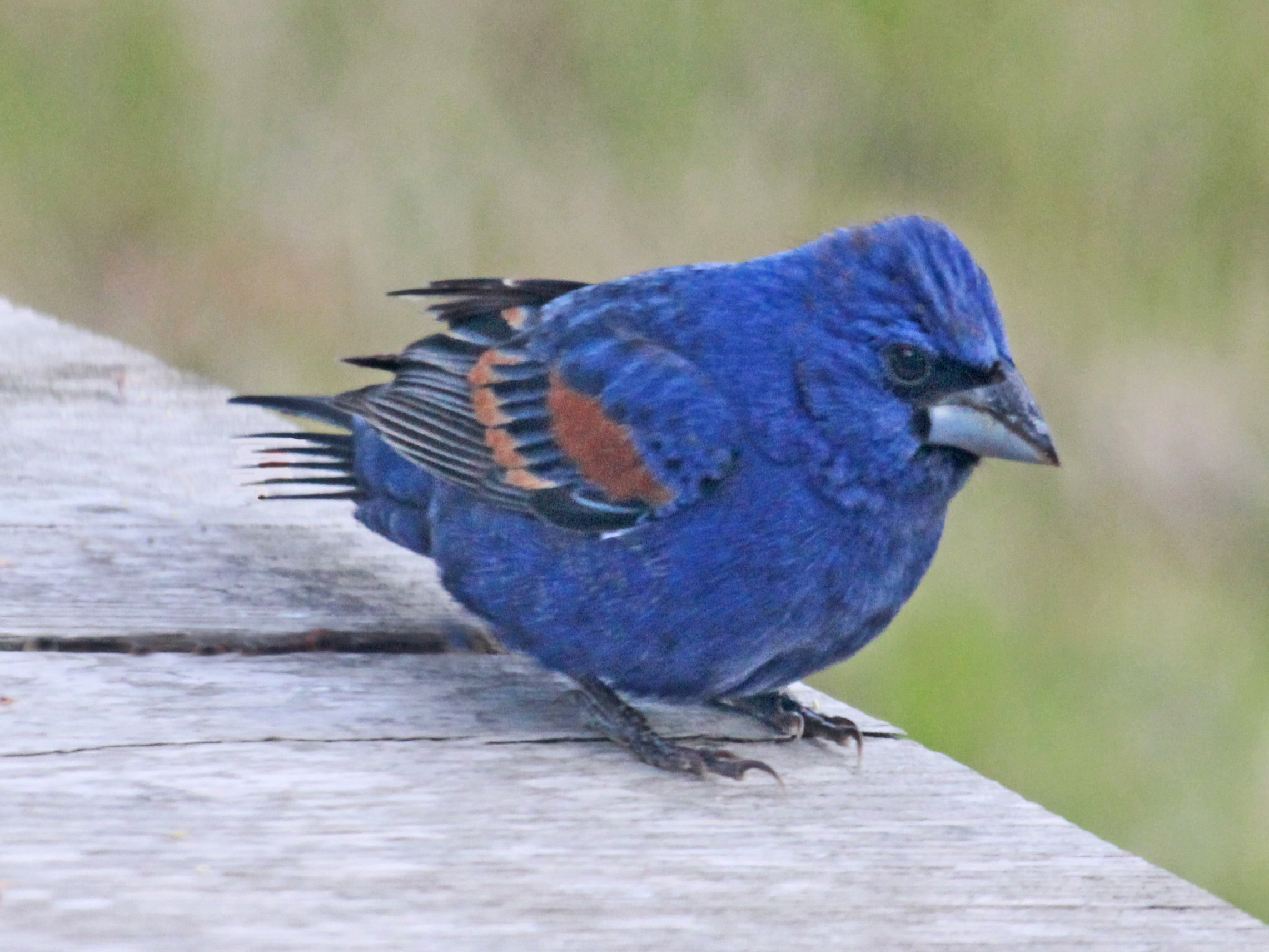 Male Blue Grosbeak (Passerina caerulea) in Ash, North Carolina, USA